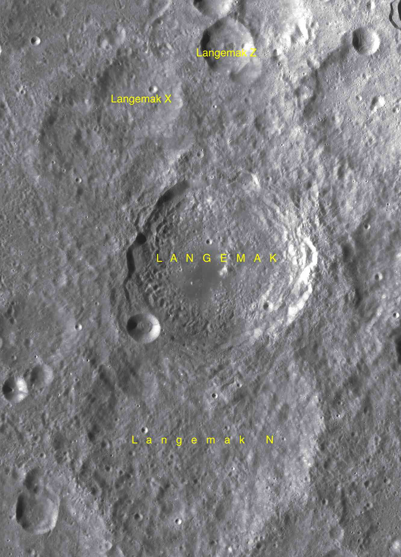 Parts of the chart LAC-83 used for the presentation